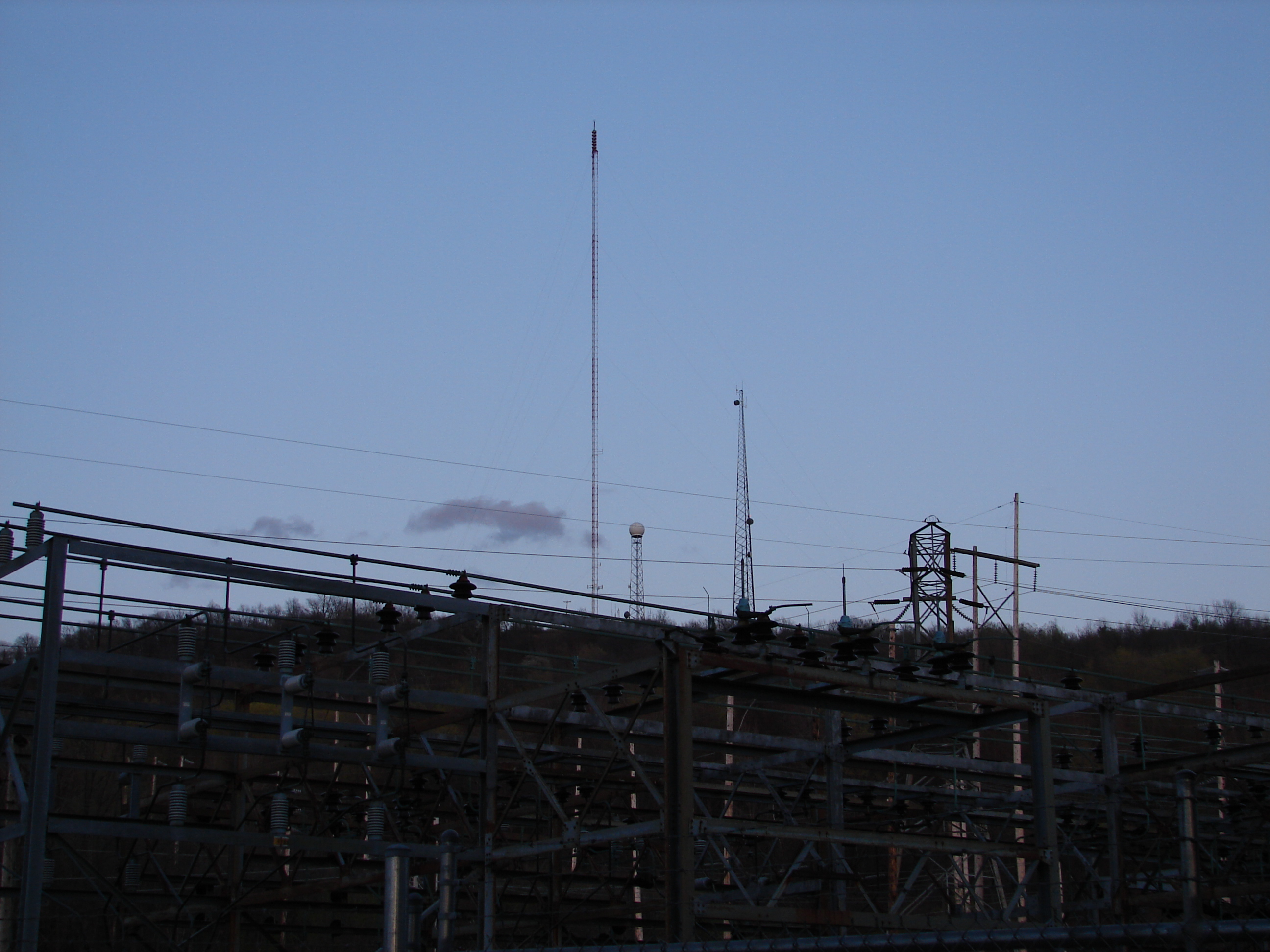 Bald Mountain radio transmitters and radar systems. WNYT, WNYT radar, and LP 35. Summary Bald Mountain radio transmitters and radar systems. WNYT, WNYT radar, and LP 35.